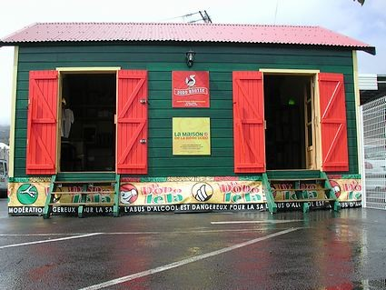 Maison de la Dodo from the Brasserie de Bourbon brewery